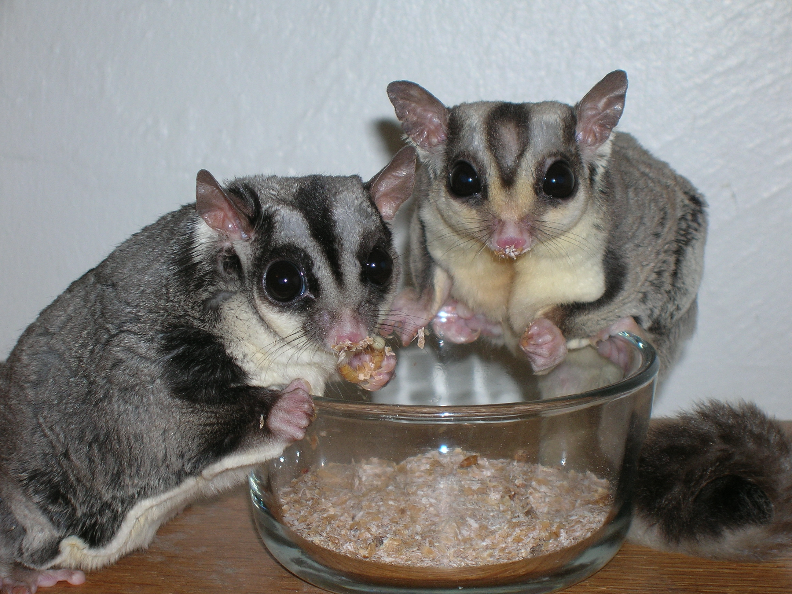 Male and female Sugar Gliders eating Meal-worms from bowl